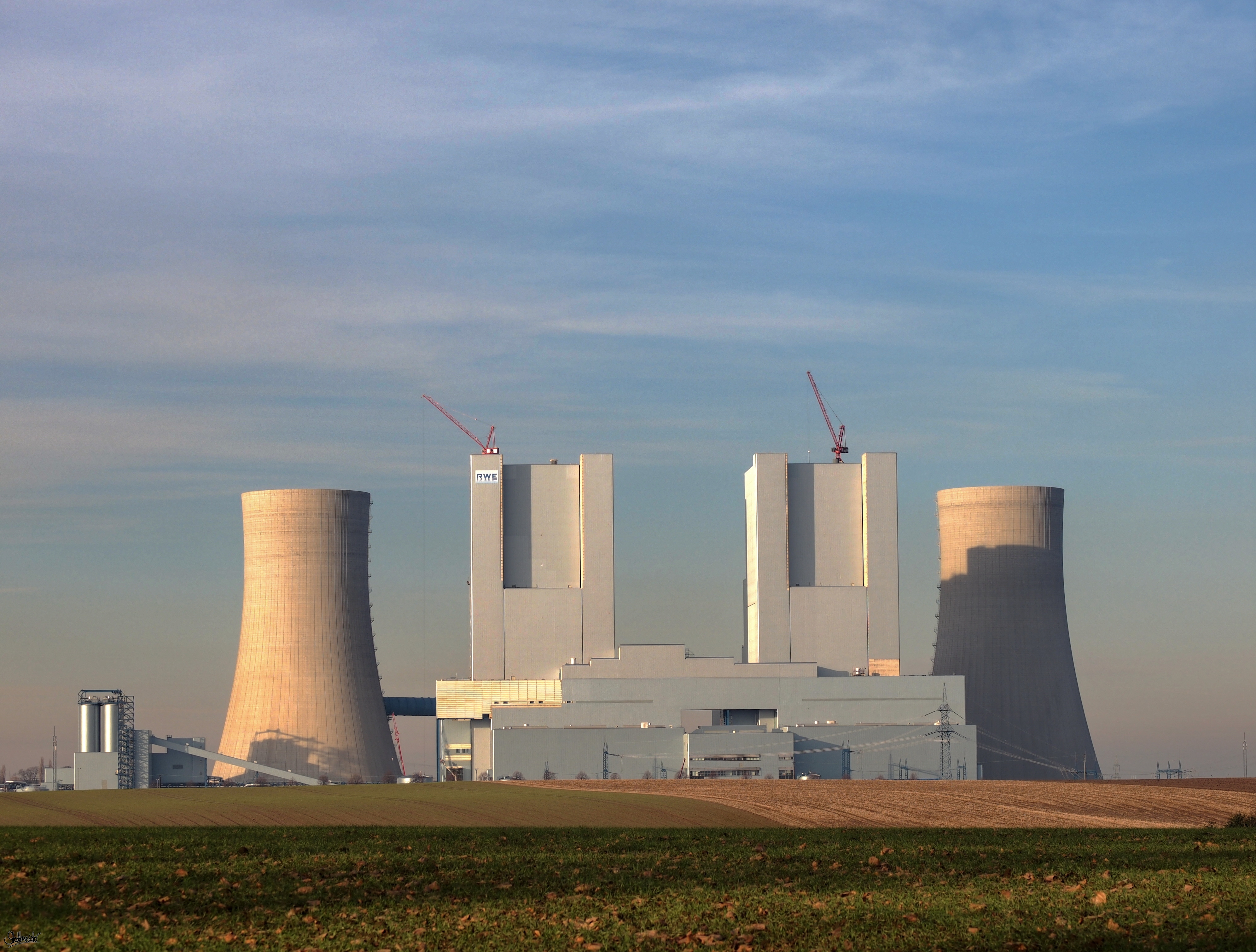 Power plant Neurath new constuction BoA 2&3